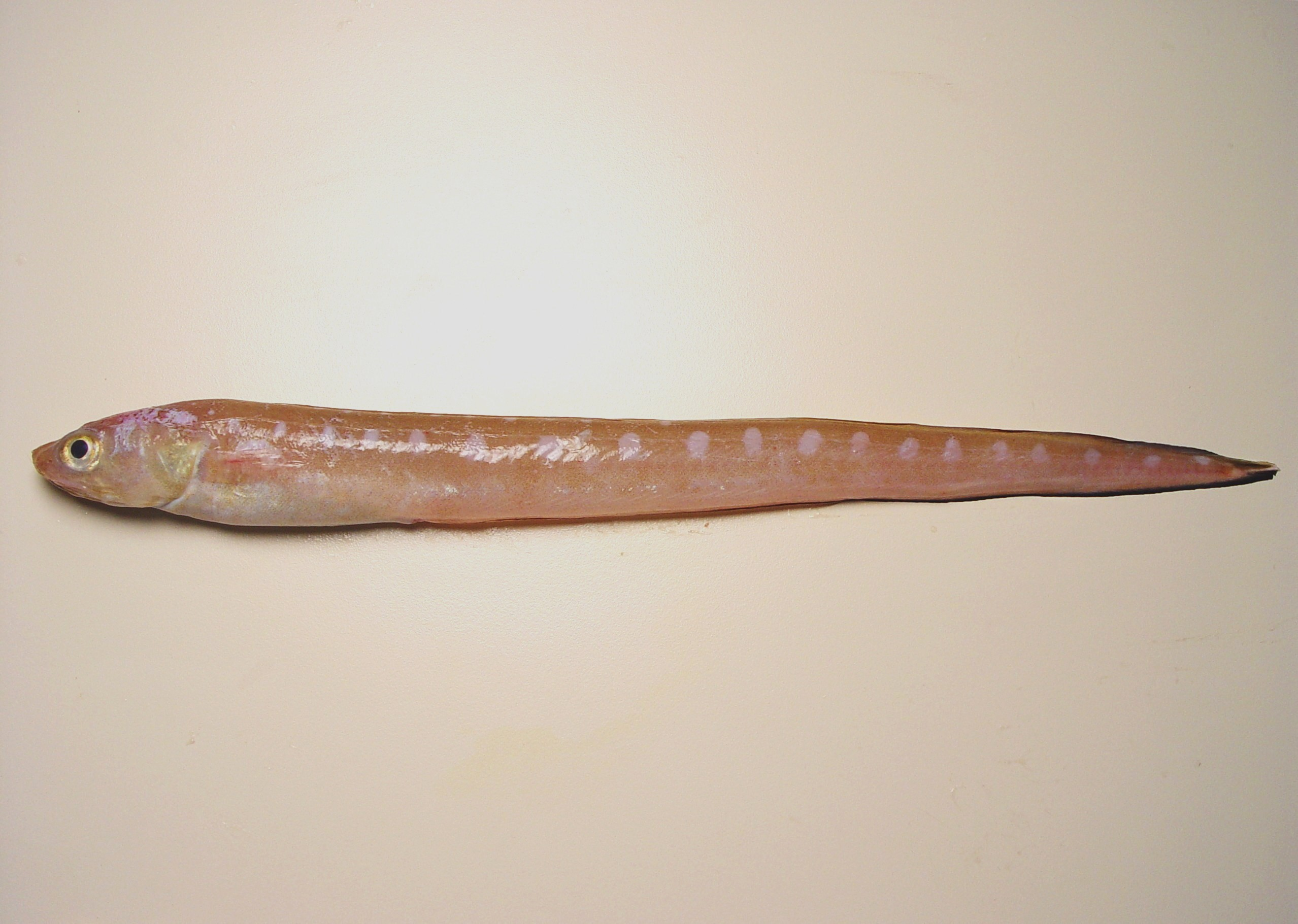 Blackrim cusk-eel or fawn cusk-eel ( Lepophidium profundorum ). Gulf of Mexico.